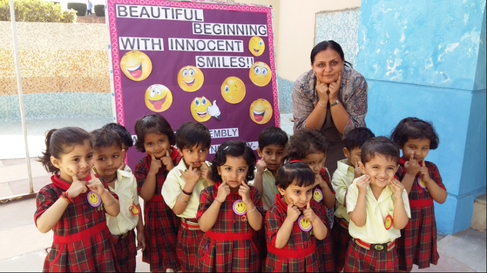 Nursery Classroom of Mayoor School Noida